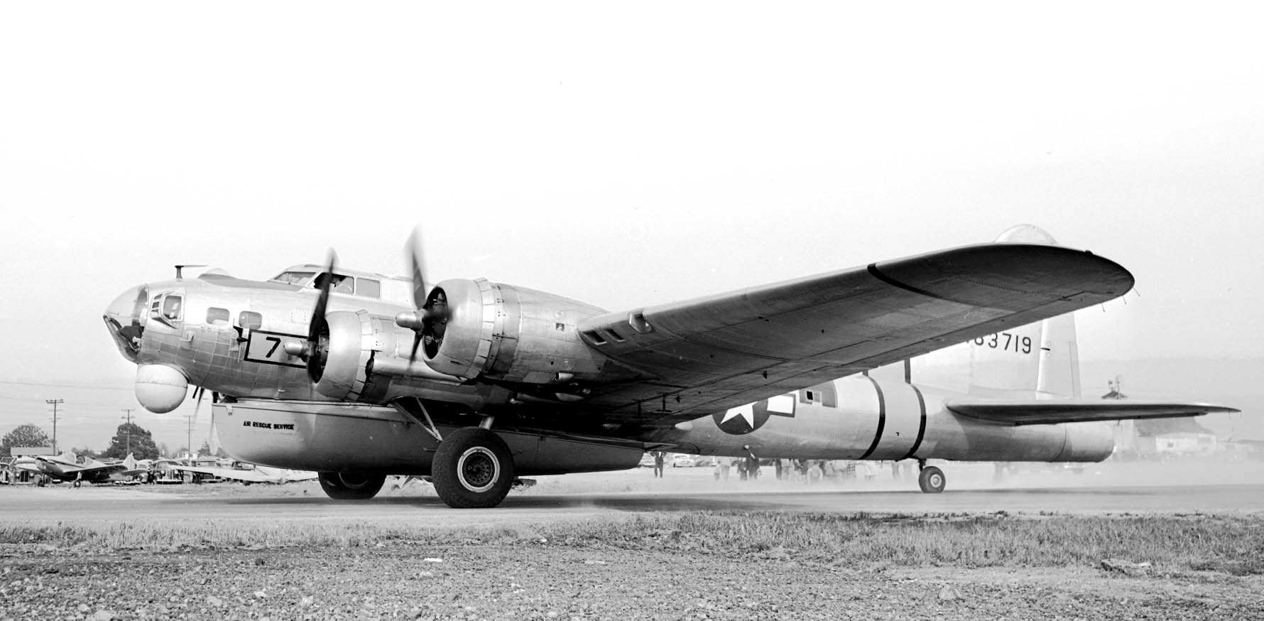 Boeing/Douglas B-17H-DL (44-83719) taxi at Hayward Airport, CA, on April 20, 1947.